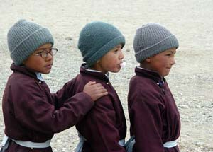 Three Children in the courtyard of The Druk White Lotus School Shey, Ladakh.